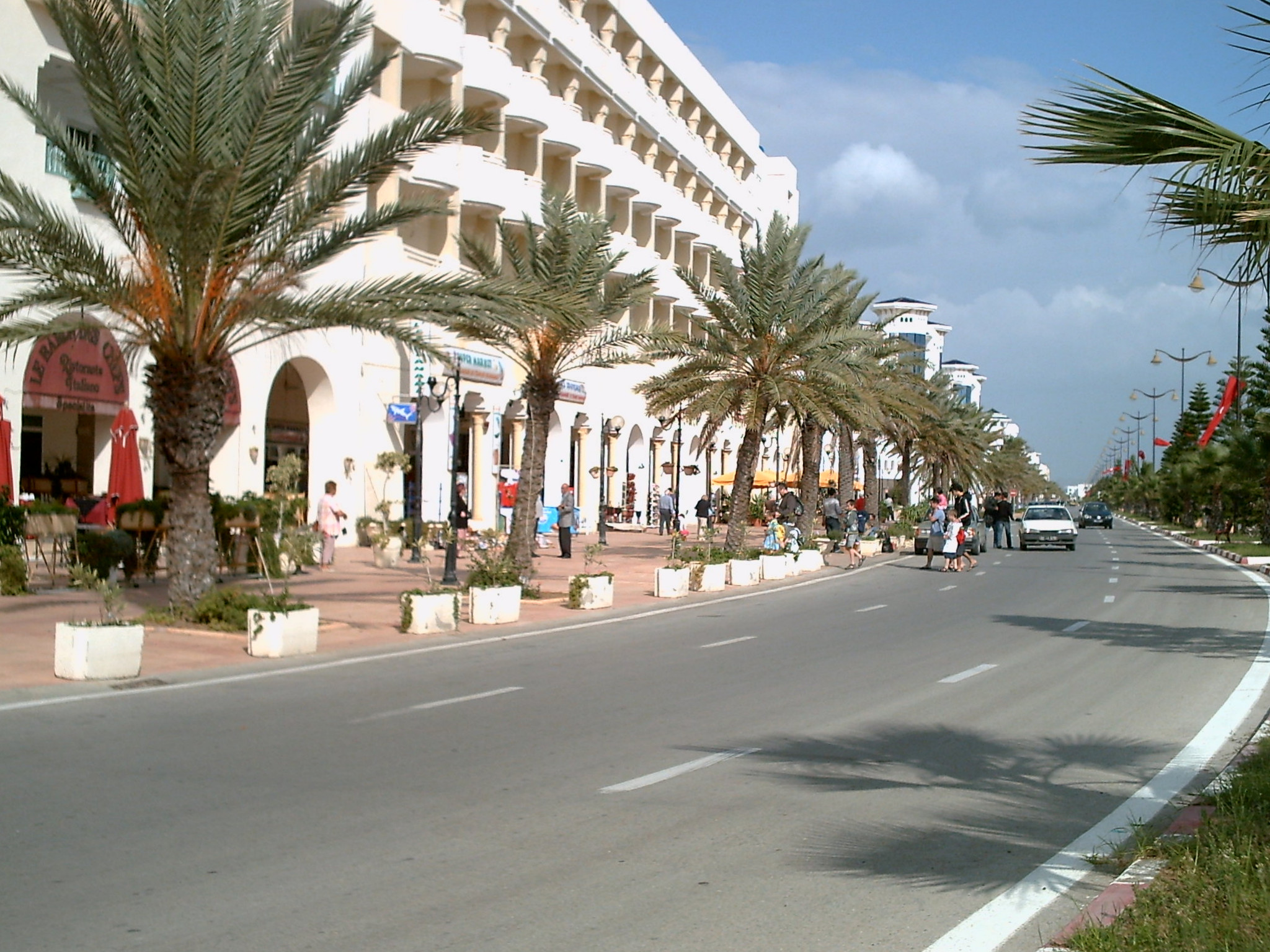 Promenade in Yasmine-Hammamet, Tunisia